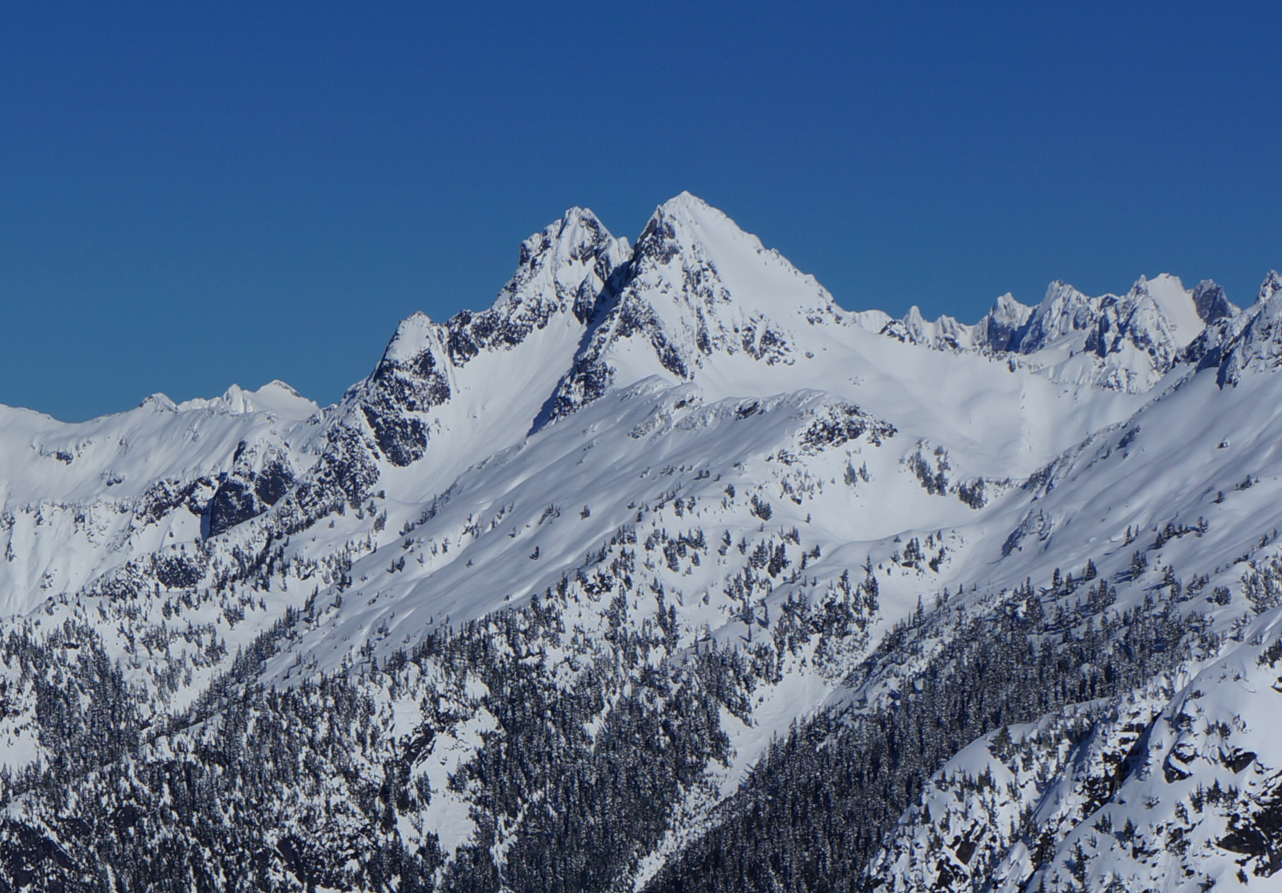 Mount Despair in winter seen from Oakes Peak. North Cascades of WA